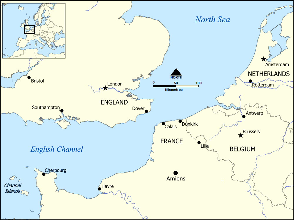 Map of the English Channel and coasts including major settlements